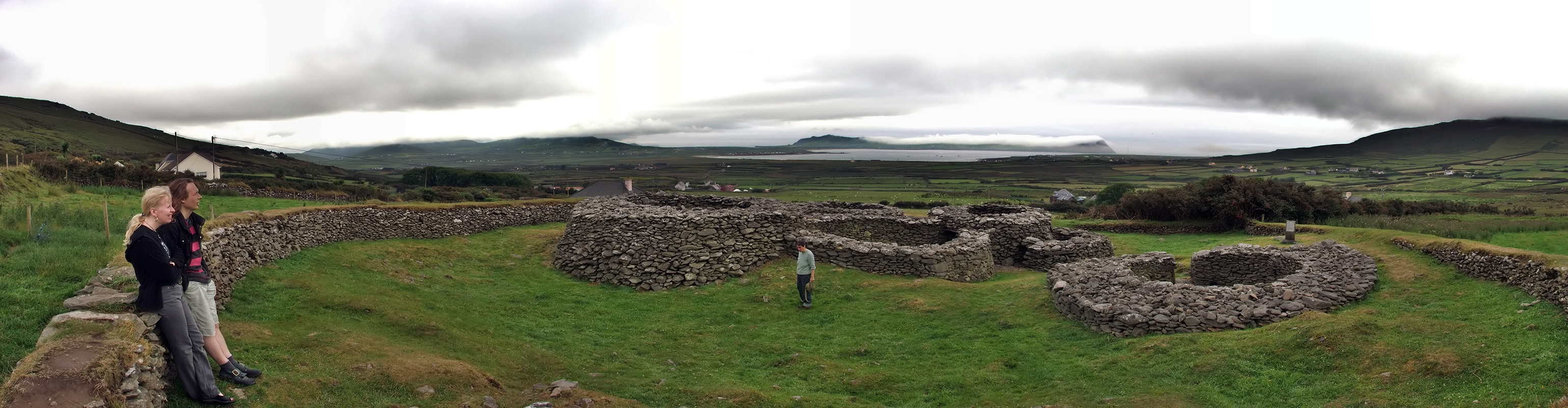 Cathair Deargan stone fort, Dingle, Co Kerry, August 2005. Stitched with Calico for Mac OSX from 12 portrait frames.